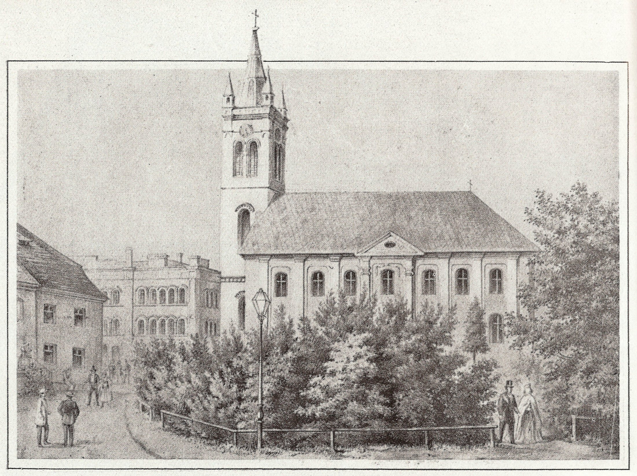 Evangelical church of Saviour in Bielsko-Biala. View from 1867